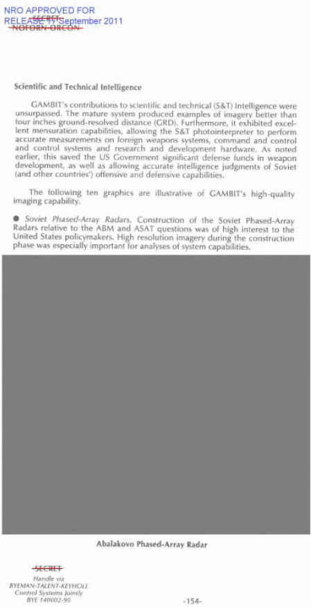 Ground-resolution distance achieved by matures GAMBIT satellite system